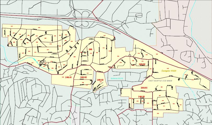 Census 2000 Block Map - Eastgate CDP